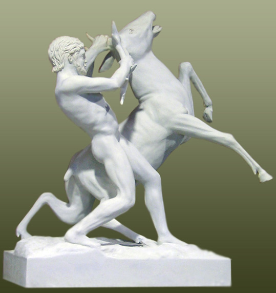 Statuette of 70 by 78 and 30 cm. Work of J. M. Felix Magdalena